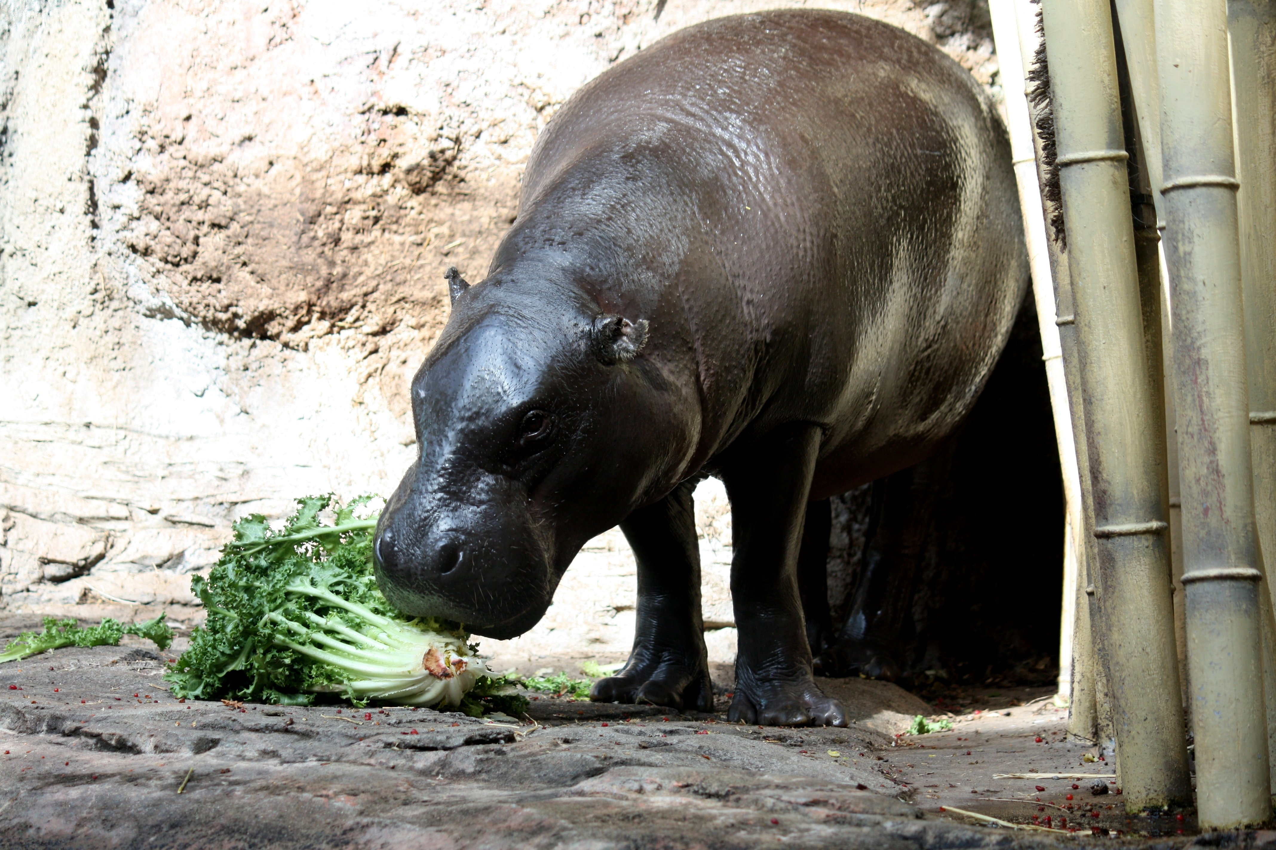 Hexaprotodon liberiensis at Louisville Zoo